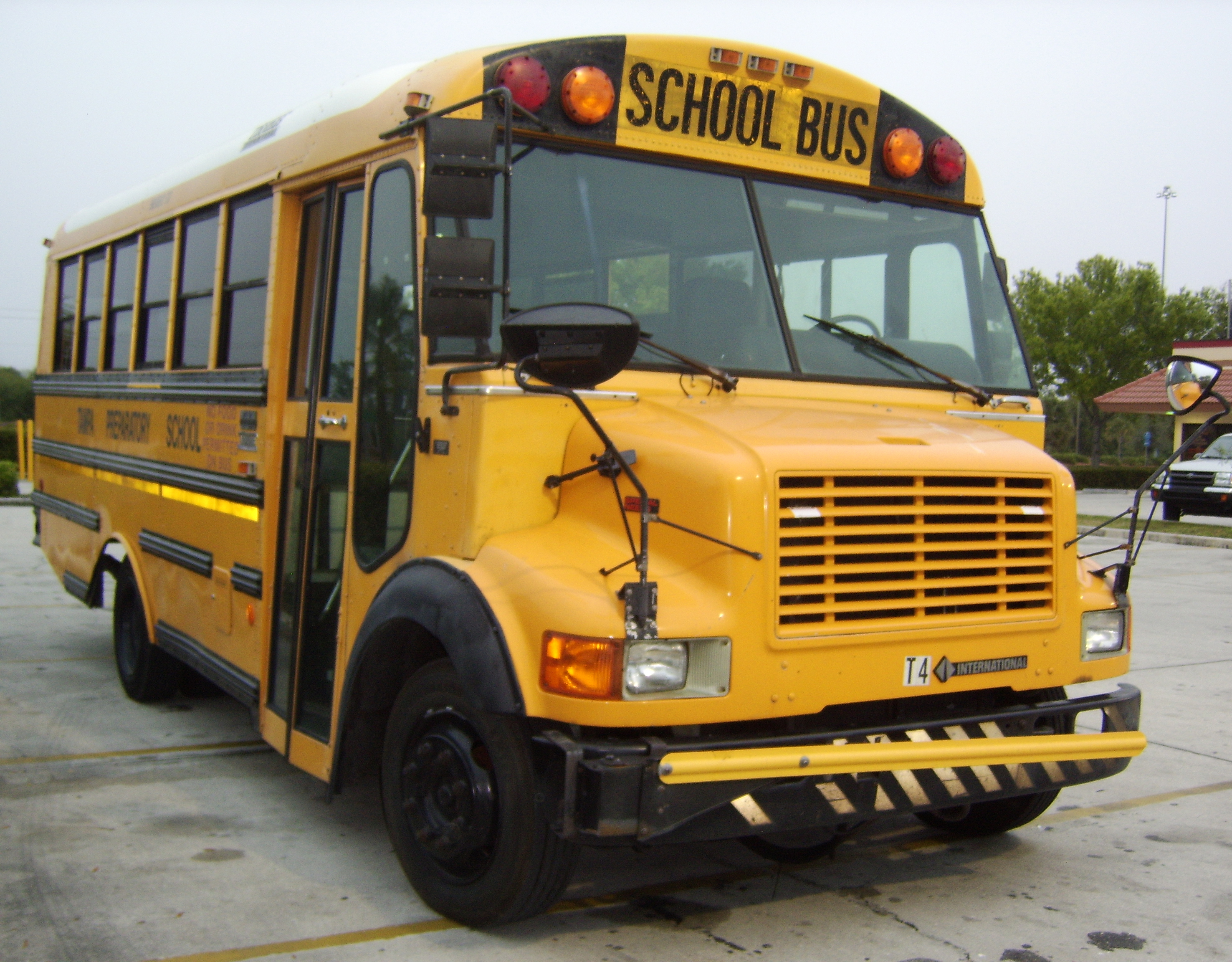 Image created by georgewuzheer.